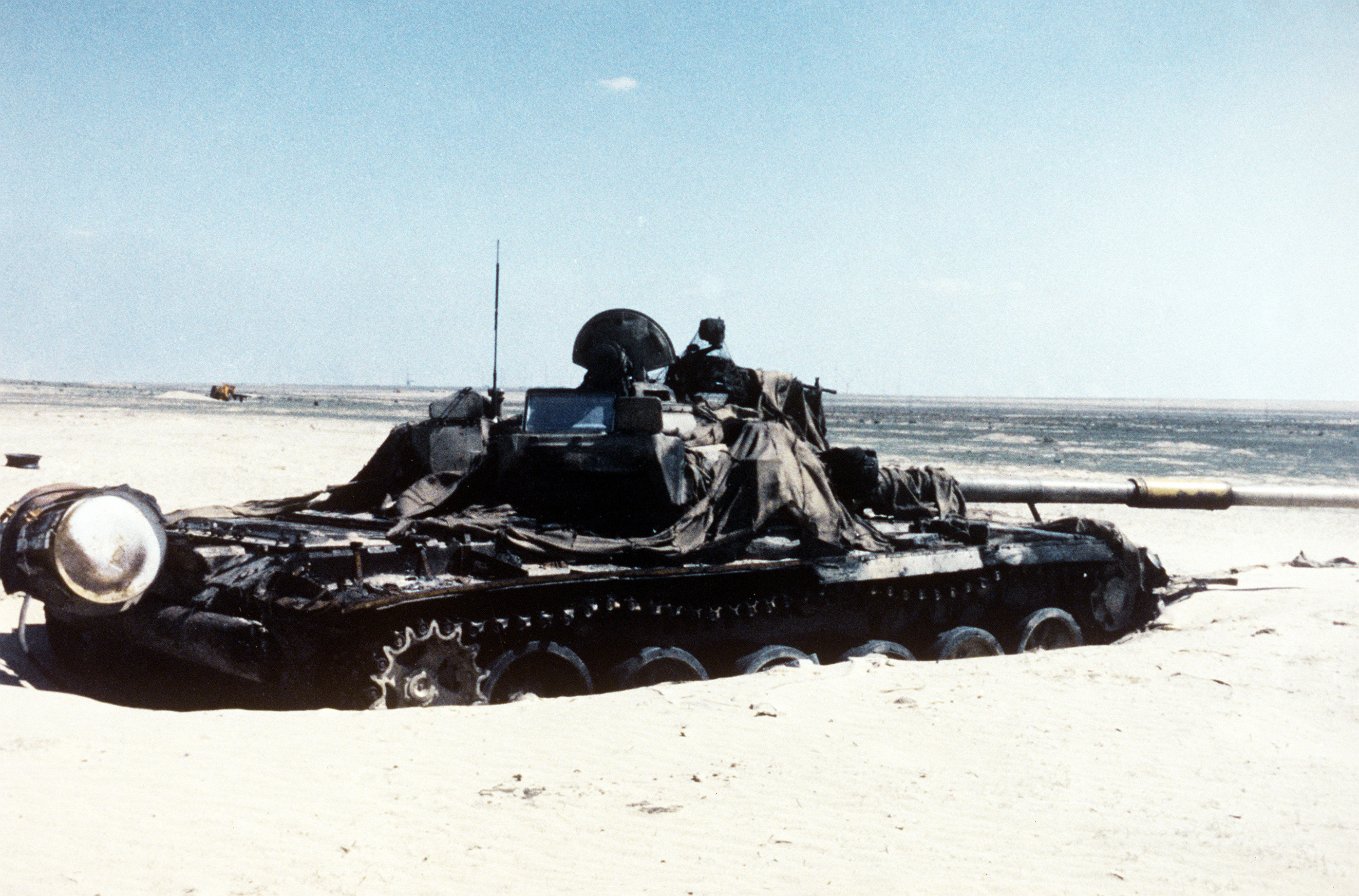 A damaged Iraqi T-72 main battle tank draped with pieces of camouflage netting lies in the desert after being abandoned during Operation Desert Storm.